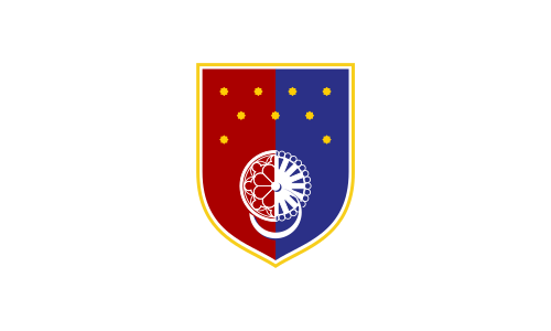 This is the flag of the Canton of Sarajevo. There are no copyrights. Created by:HarunB. Uploaded by:Kseferovic.